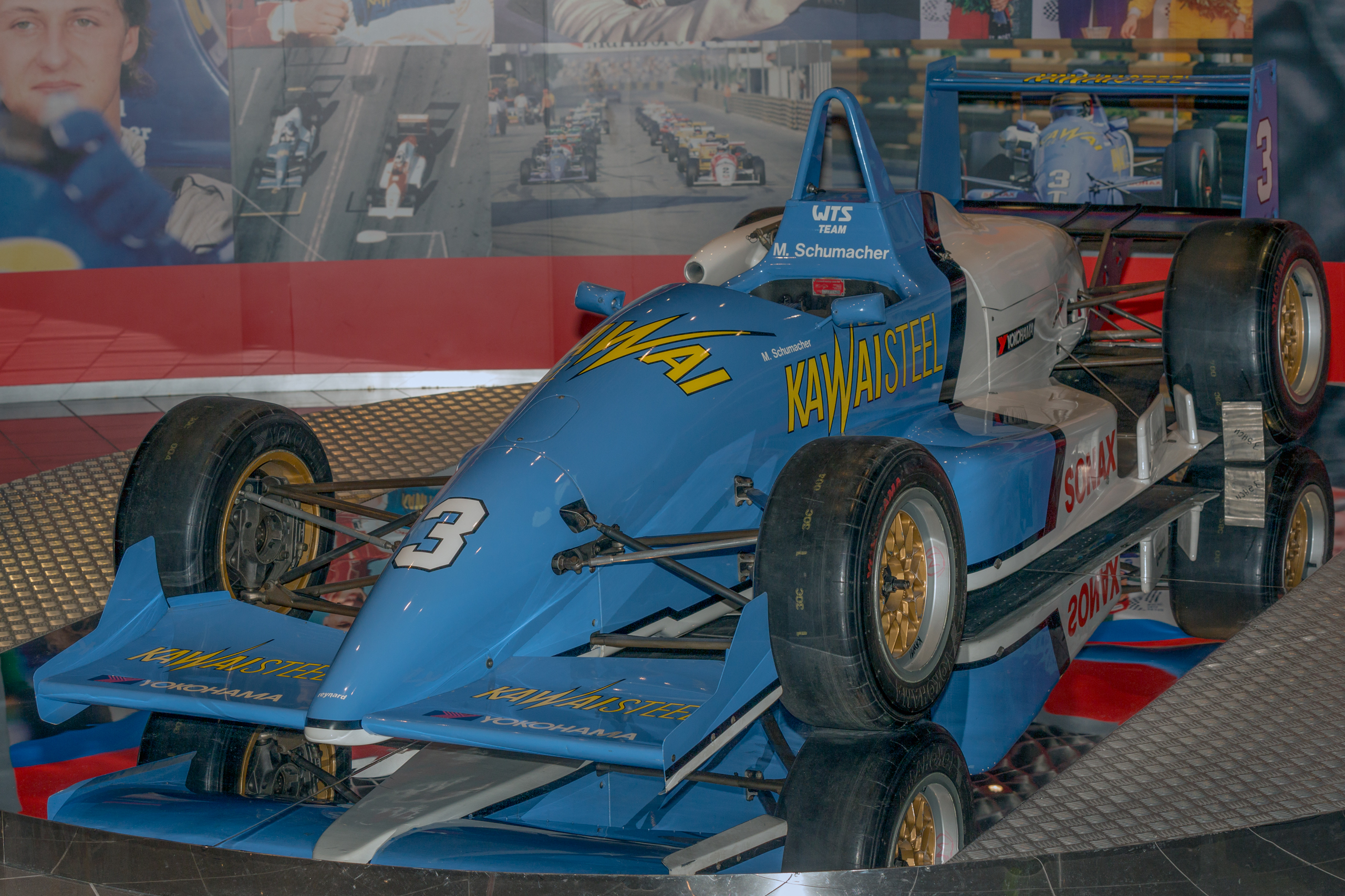 Reynard 903 of Michael Schumacher (WTS Racing), 1990 Macau Grand Prix.